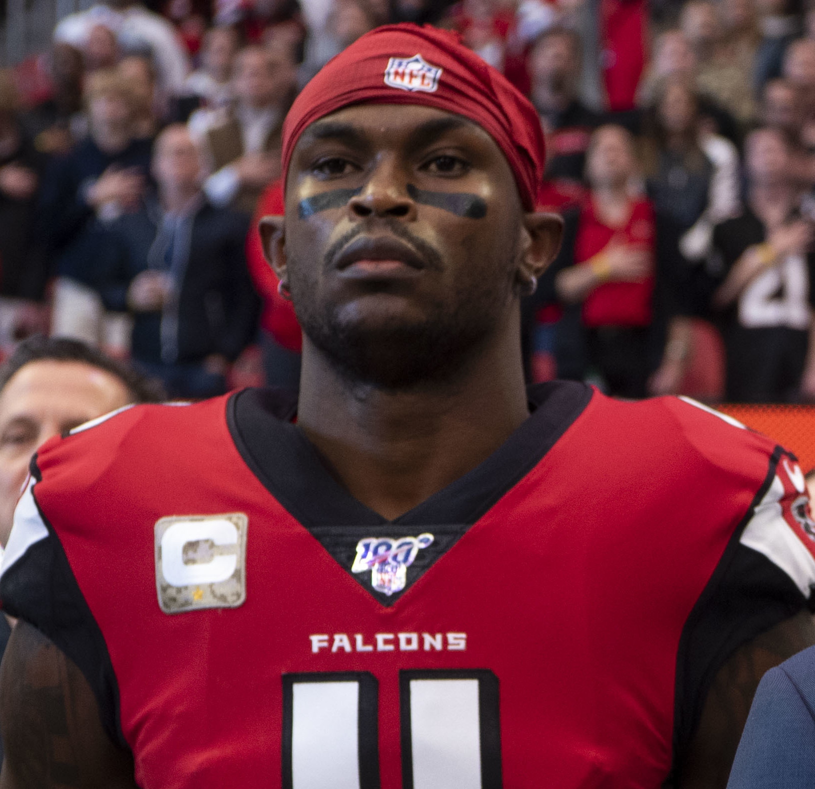 Defense Secretary Mark T. Esper renders honors during the National Anthem, at the NFL’s Atlanta Falcons vs. Tampa Bay Buccaneers Salute to Service game, Atlanta, Georgia, Nov. 24, 2019.